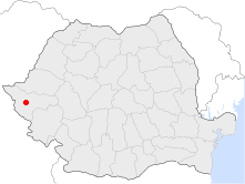 Location of Timișoara in Romania.